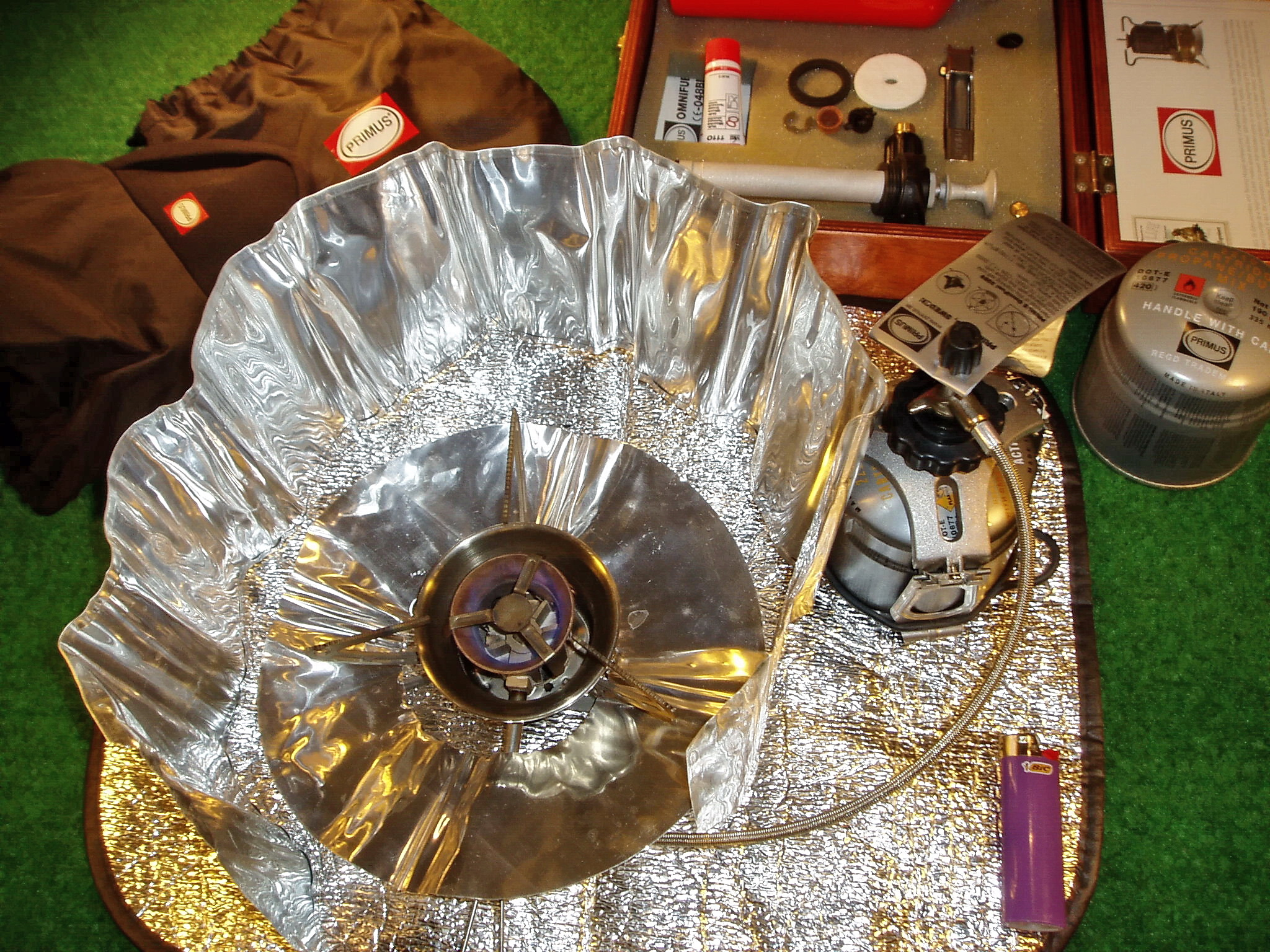 Portable stove Primus Omnifuel for outdoor-use, running on universal gas (butane, propane) or fluid (petrol, diesel, gasoline). digitally edited image.